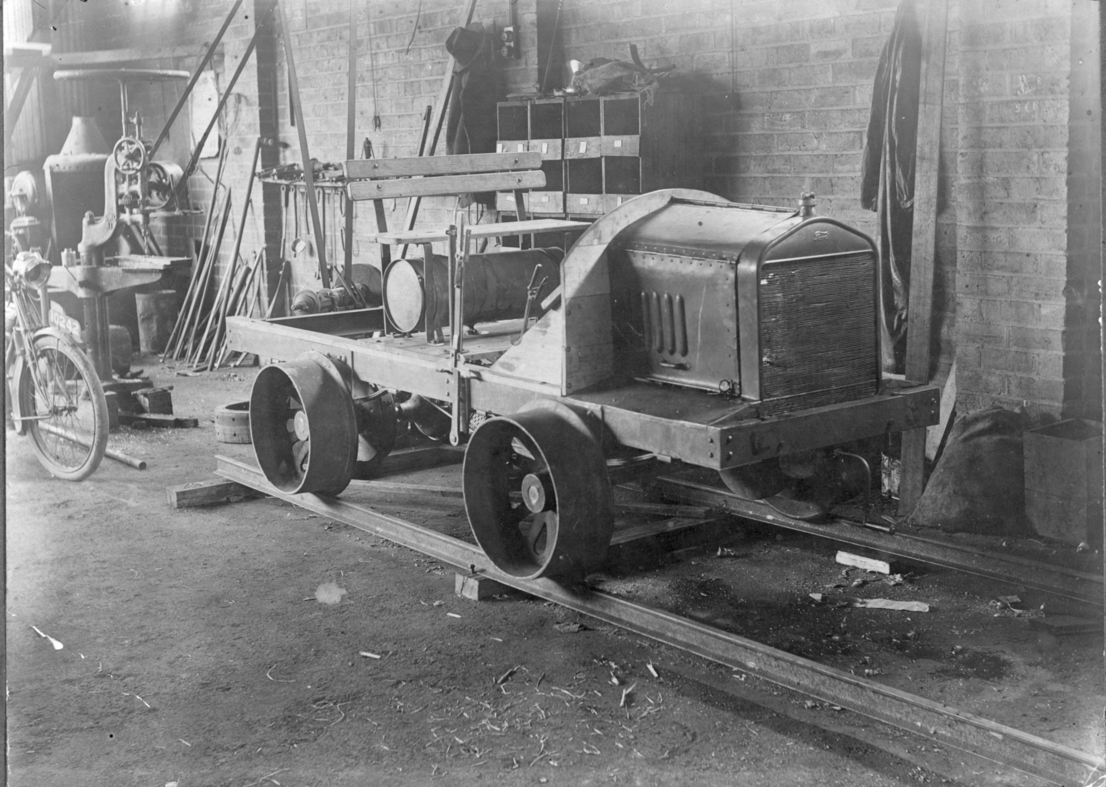 Marrawah Tramway - Ford Model T converted into rail motor by Arthur Schmidt of Burnie